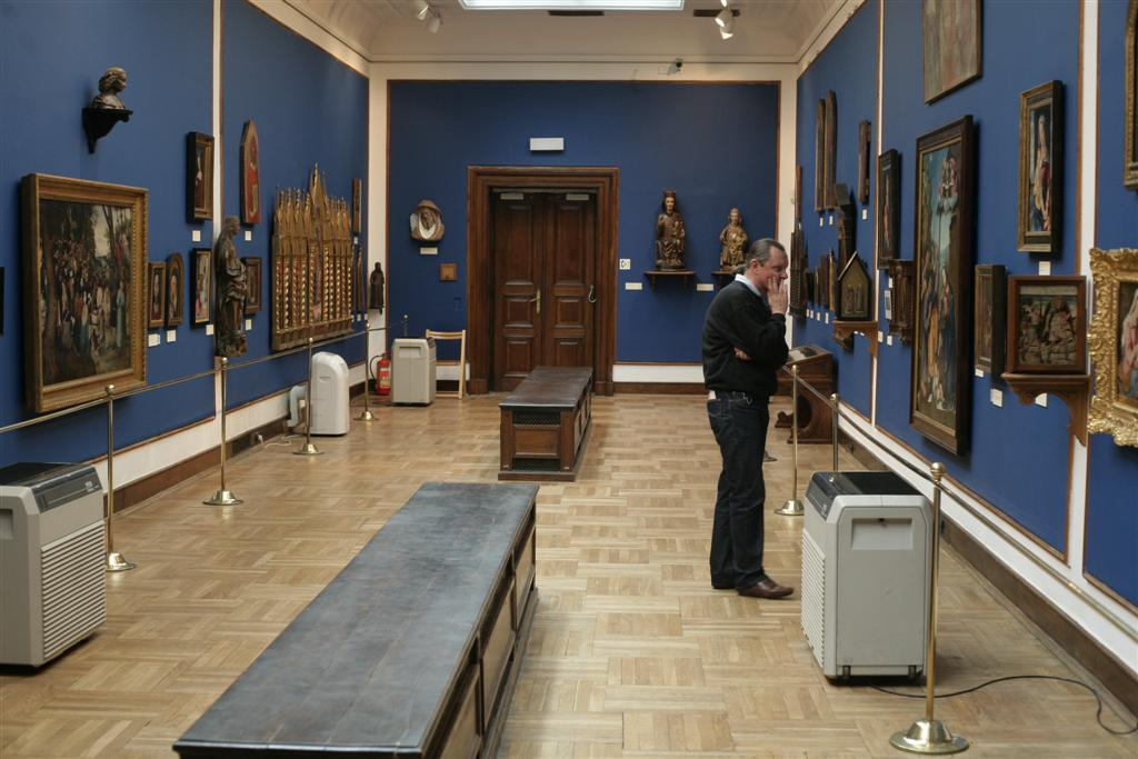 Czartoryski Museum